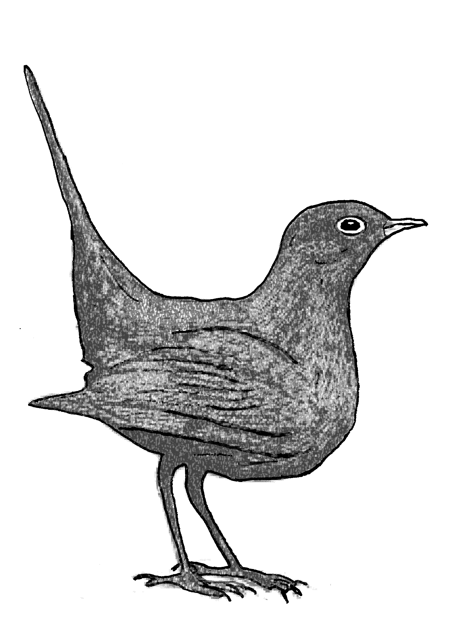 Characteristic erection of tail of Common Blackbird (Turdus merula) when stopping